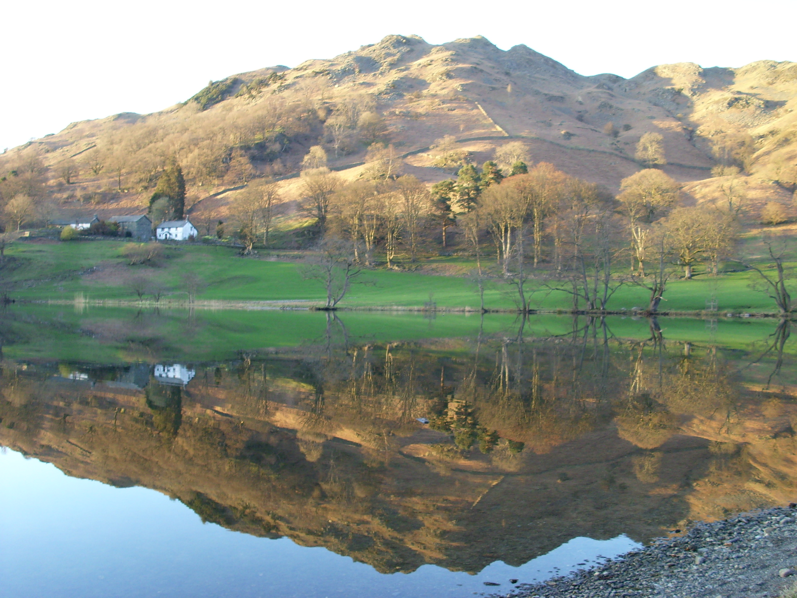 (Photo by - Noface1) - A spring reflection in Loughrigg Tarn sitting at the foot of Loughrigg Fell.